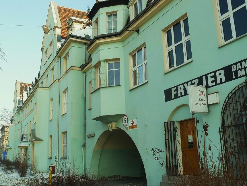 Poznan, Hutnicza Street, District from 1913.